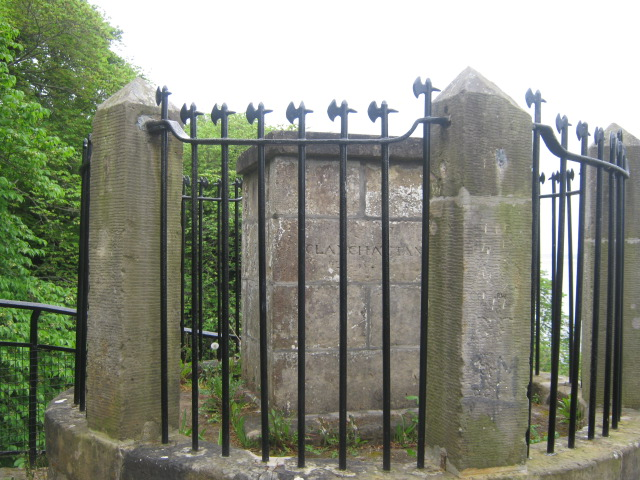 Clacnaharry battle monument